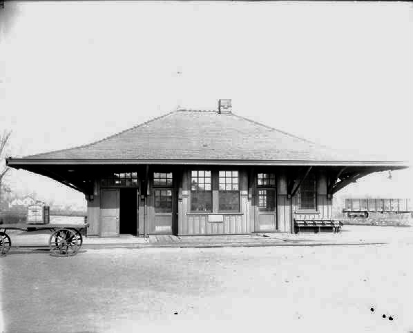 The Falconer Erie Railroad station on the main line in Falconer, New York.